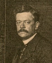 Detail from: Photograph of Charles Sprague Pearce (1851-1914) in his studio in Auvers-sur-Oise